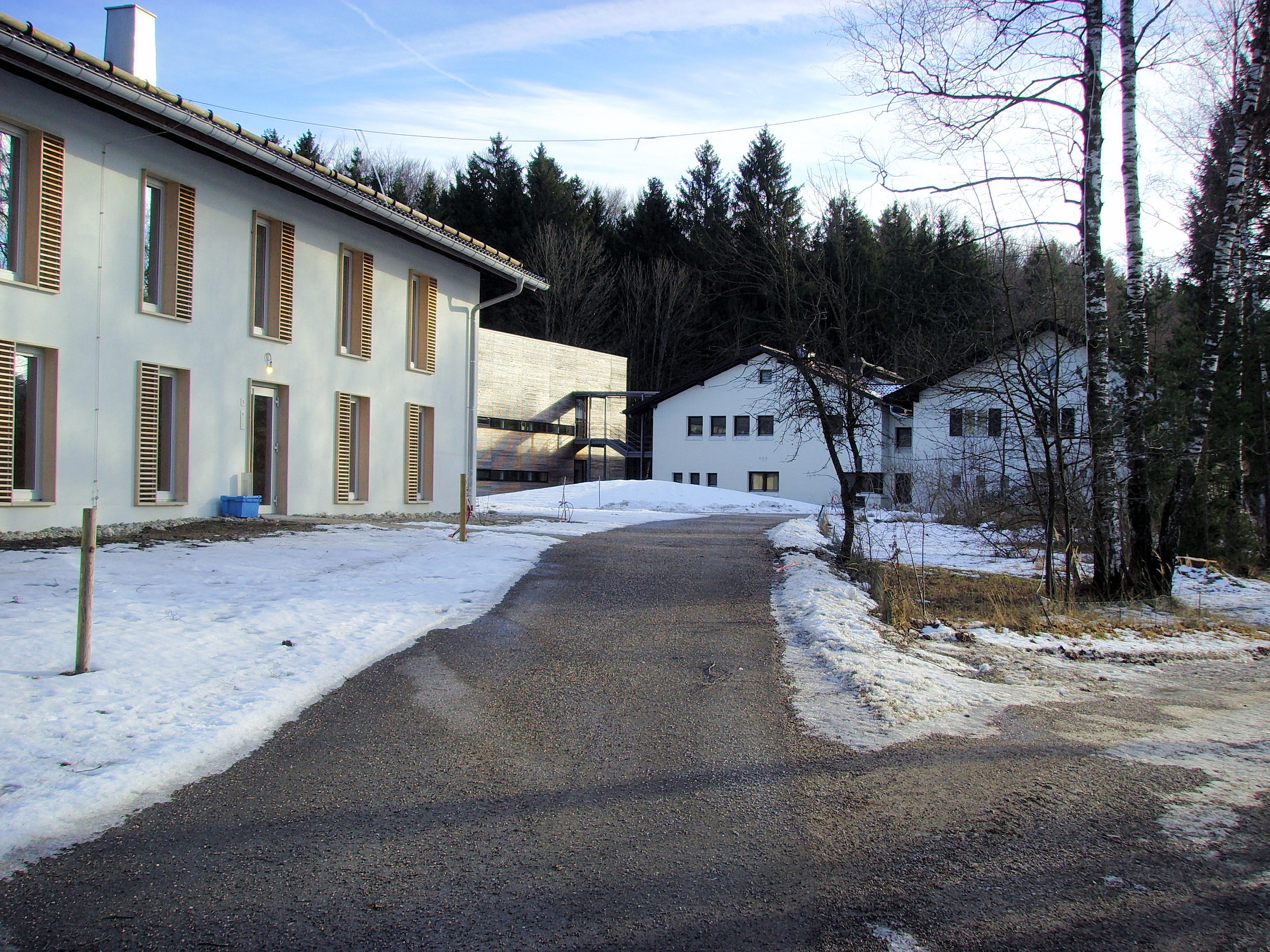 Max Planck Institute for Ornithology, Seewiesen (Bavaria, Germany), formerly known as Max Planck Institute für Behavioral Physiology